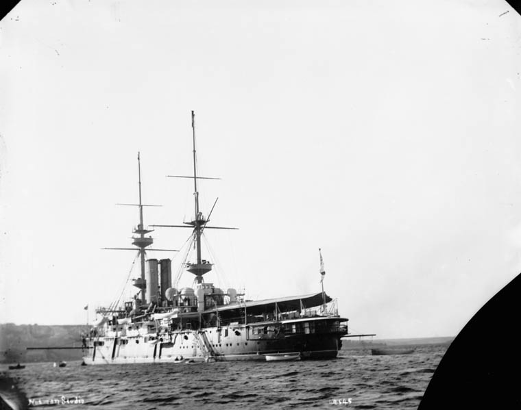 Stern view of H.M.S. "Renown" at Halifax, Nova Scotia, Canada.